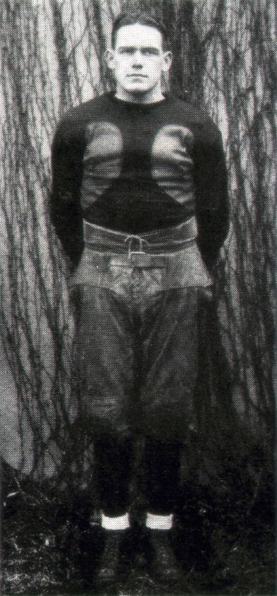 1923 Full body portrait of John Webster Thomas, star All American (1922) Fullback for Jamestown College (1919-1920) and the University of Chicago (1921-23). Coach for Haskell Indian Institute mid 1920s.